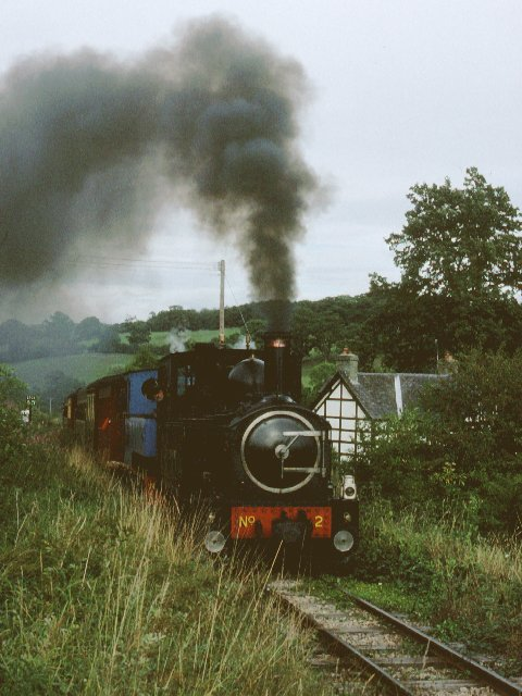 Welshpool & Llanfair Light Railway. A W&LLR train storms up Golfa bank on the steep climb up from Welshpool.